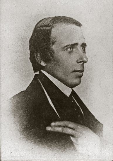 Photographic portrait of Wilhelm von Wright